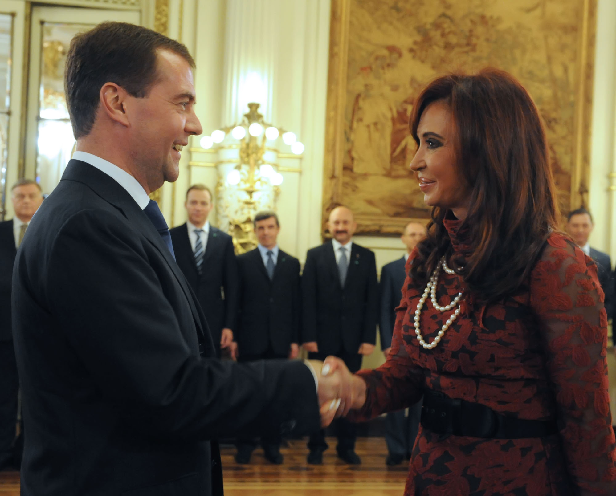 With President of Argentina Cristina Fernandez de Kirchner.